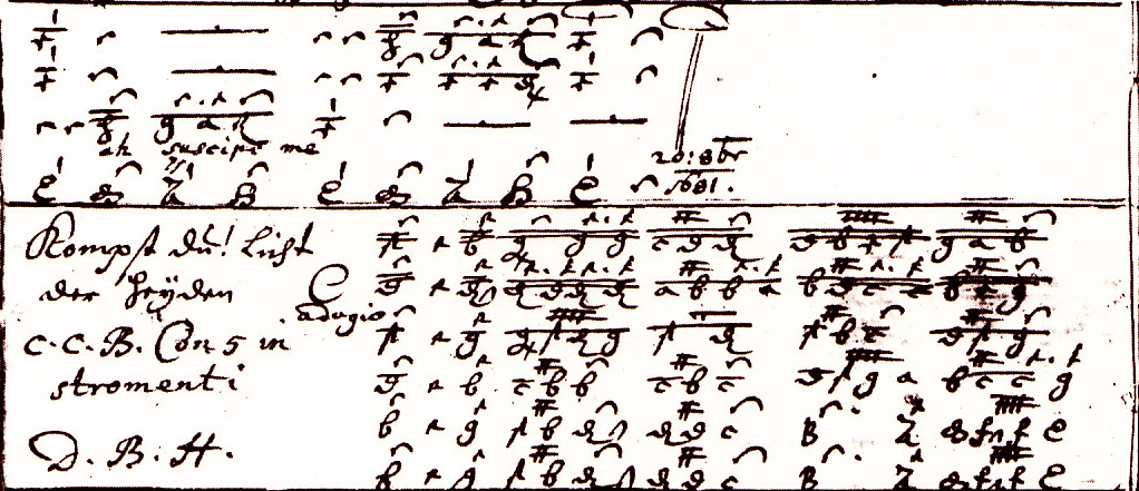 Organ Tablature of Dieterich Buxtehude's O dulcis Jesu BuxWV83